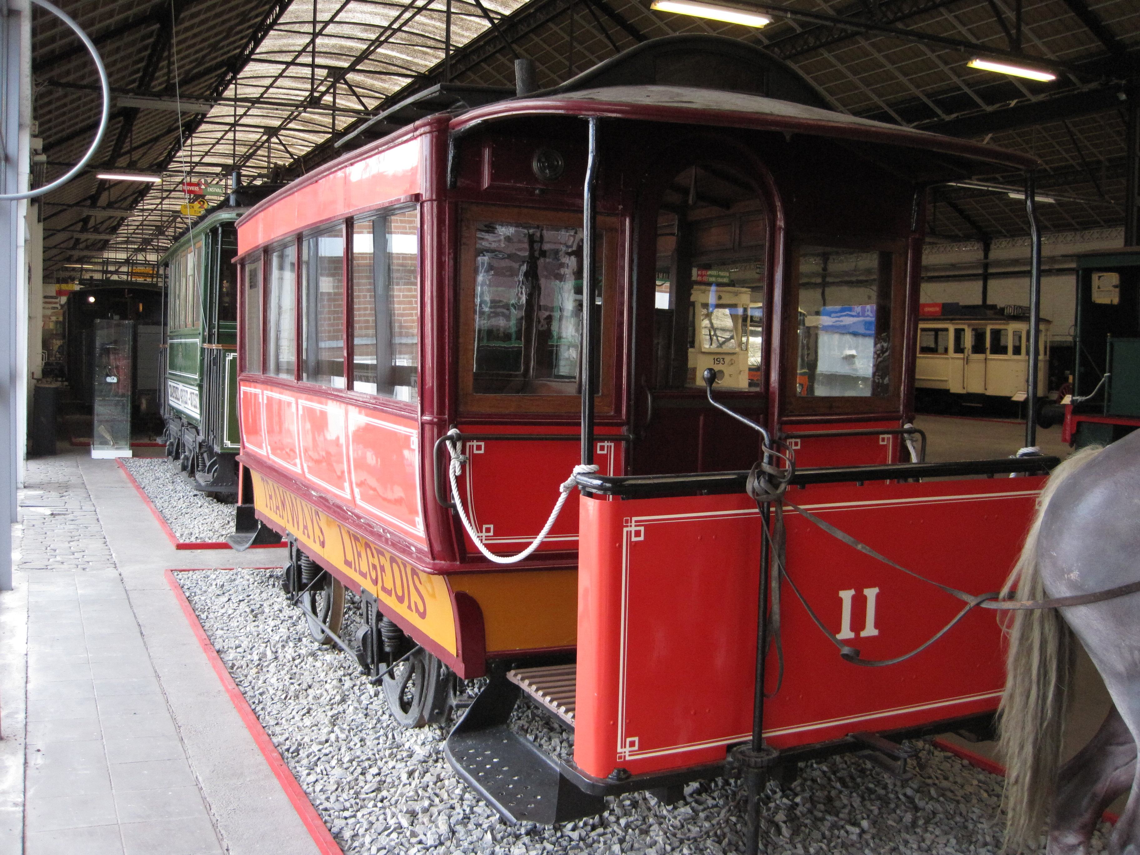 Tramway Liège